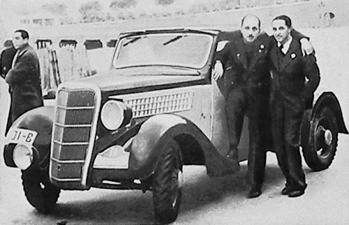 Petre G. Christea (left) and co-driver Ionel Zamfirescu (right), winners of the 1936 Rallye Monte Carlo. The car is a Ford Type 48 2-seater convertible with a V8 (where would the mechanic sit?. They had started in Athens.